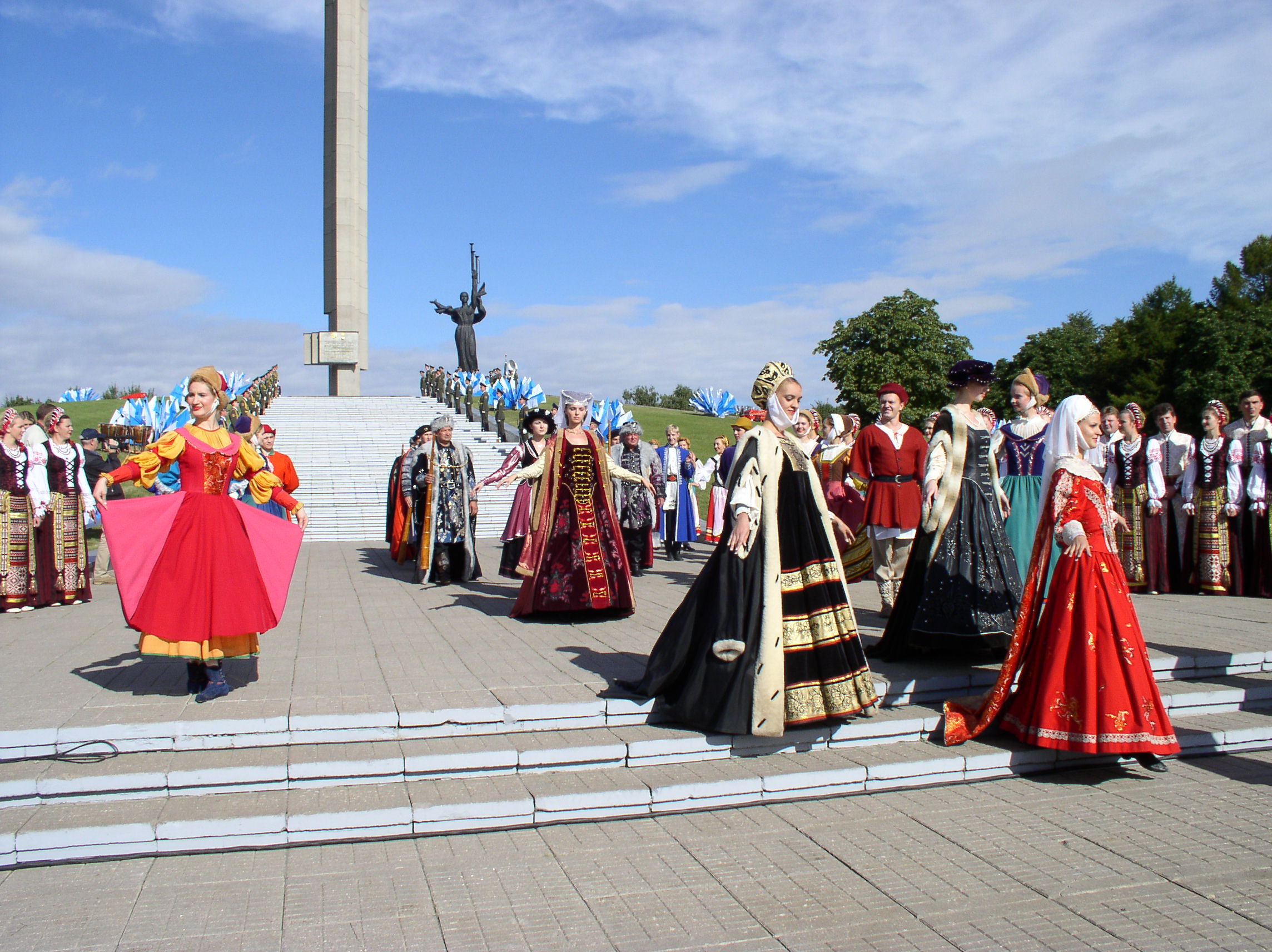 Celebration of 940 anniversary of Minsk near "Minsk — Hero-City" monument. Minsk, Belarus.